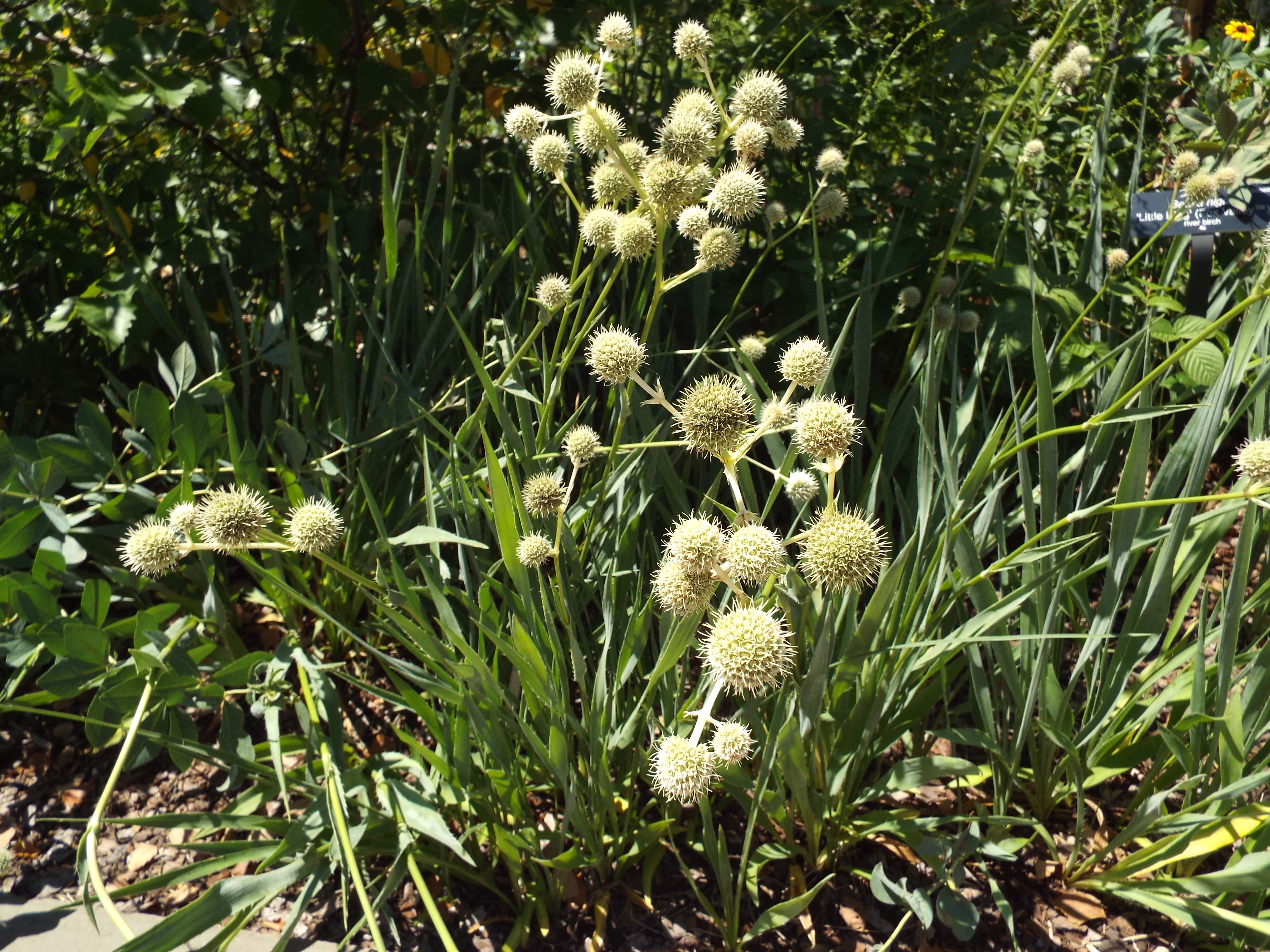 Eryngium yuccifolium flowers and stem